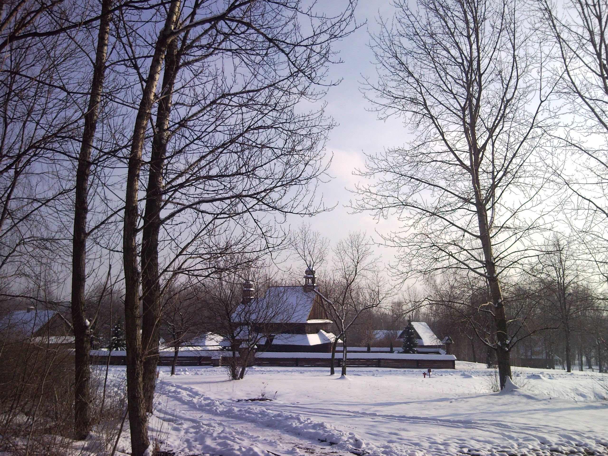 Saint Joseph church, Upper Silesian Ethnographic Park, winter 2009